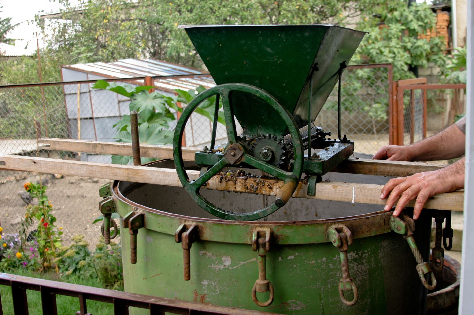 Grape crusher for wine making.